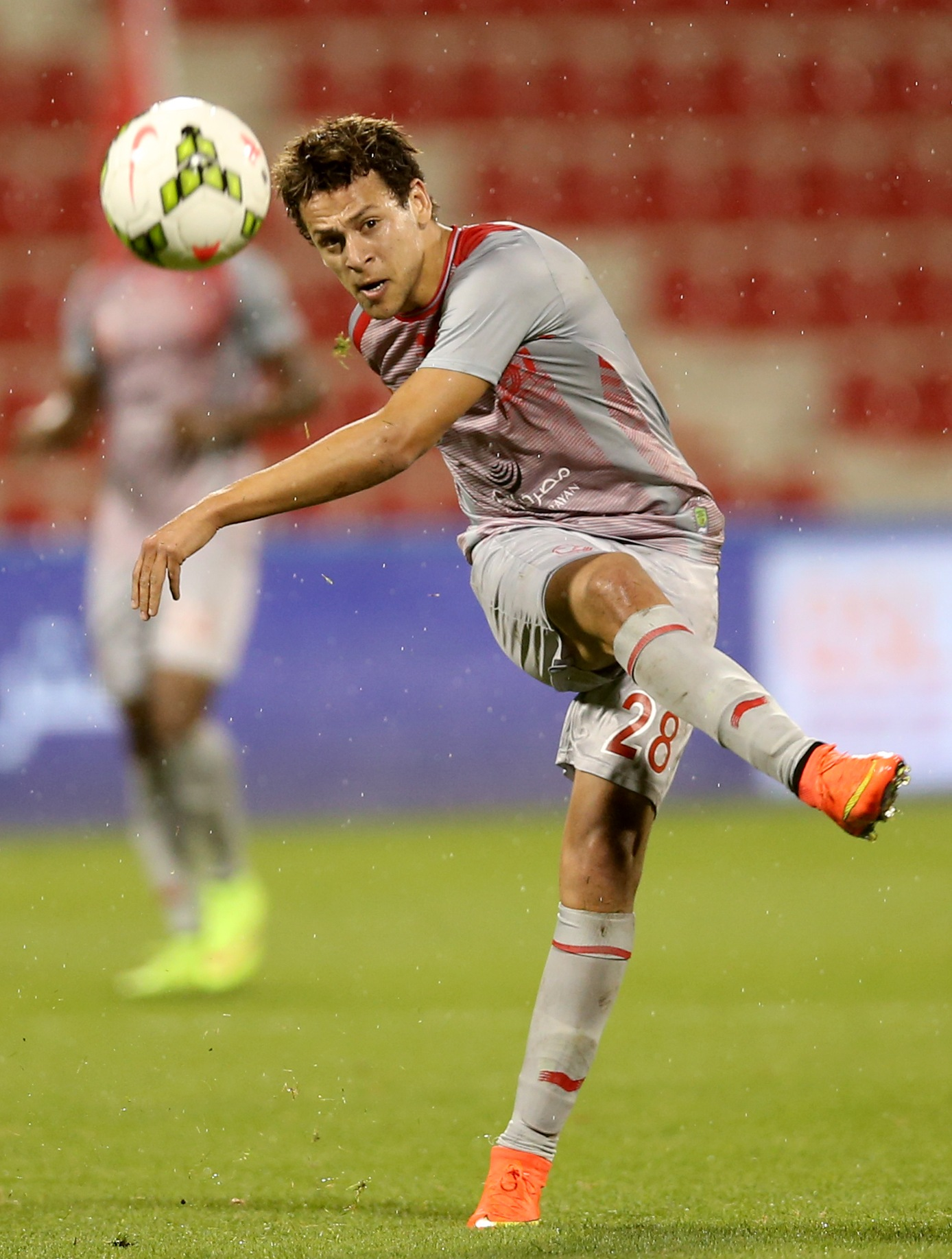 Qatar Stars League side Lekhwiya's Youssef Msakni kicks the ball during a game in Doha.